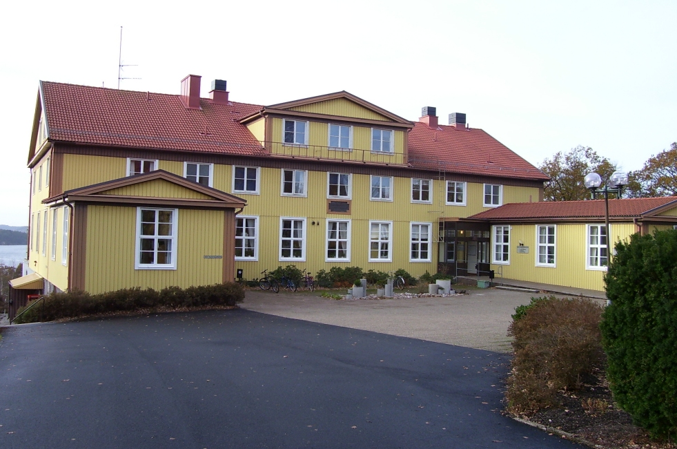 Ljungskile folk high school, main building